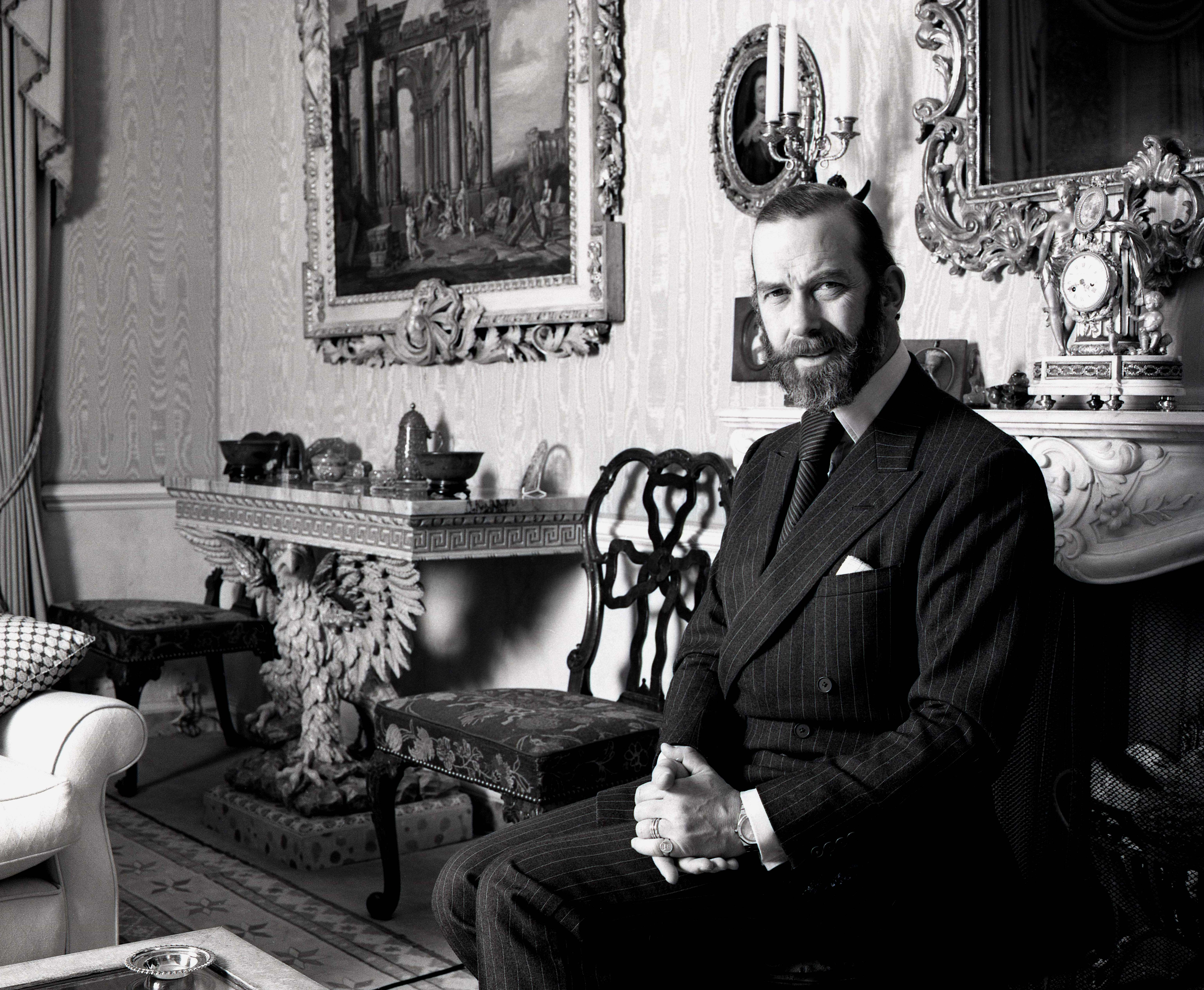 H.R.H.The Prince Michael of Kent